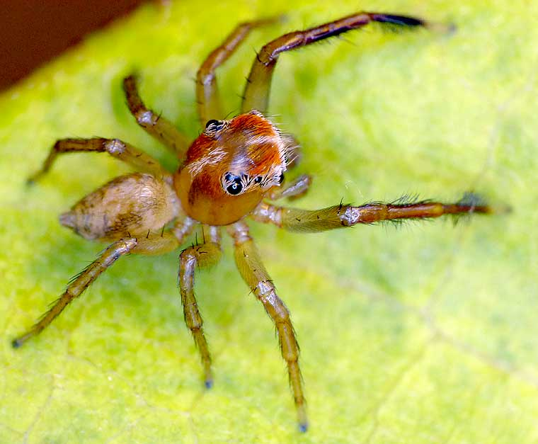 Prostheclina pallida Very common at Mount Glorious. Permit required for any investigations in National parks.